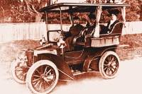 The 1903 Sunbeam four-cylinder rear-entrance Tonneau is so rare that only around 75 of its type were made by Sunbeam - and only three are known to have survived